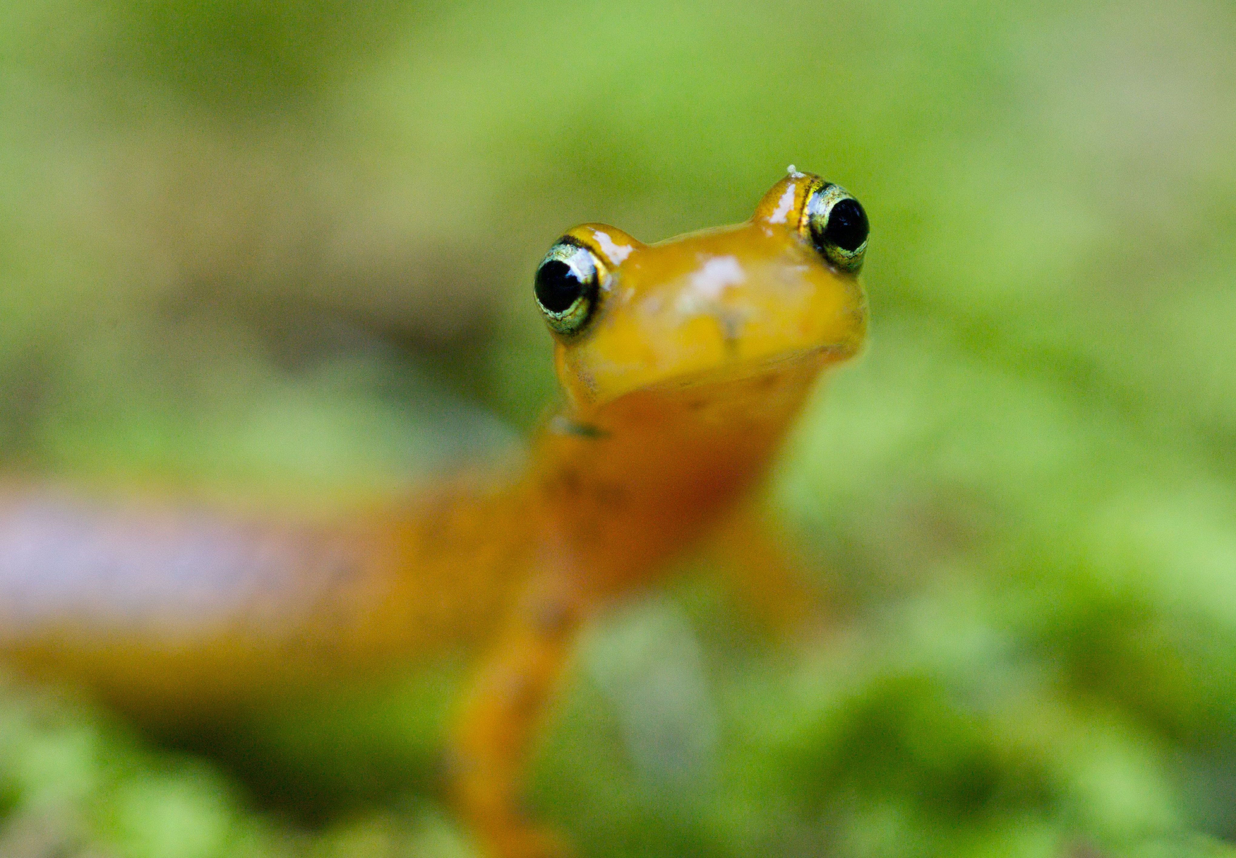 Image title: Close view of longtail salamander Image from Public domain images website